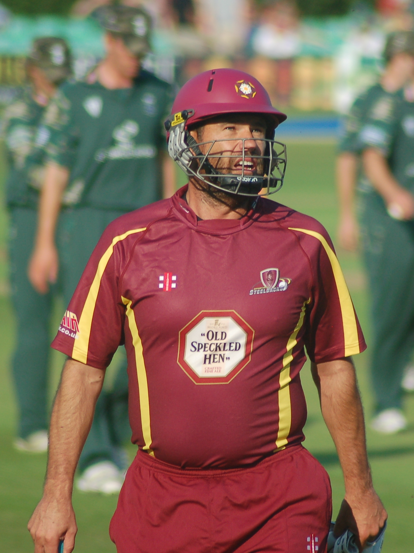 Andrew Hall playing for Northamptonshire Steelbacks v Worcestershire Royals in a T20 match at New Road, Worcester